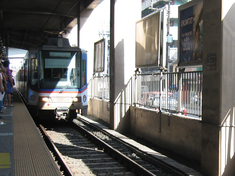 Manila MRT-3 Train approaching Taft Avenue Station.